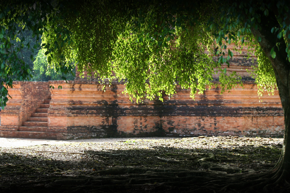 Candi Tinggi